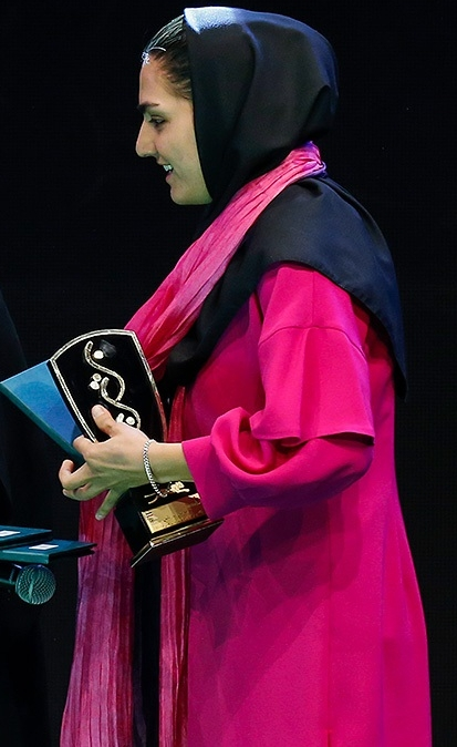 Zahra Ghanbari awarded as the best goal scorer of Iran league